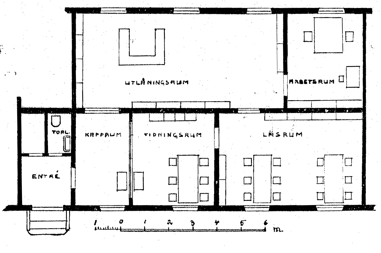 Floor plan of Ljungby Public Library 1937, then located in Köpingsgården.